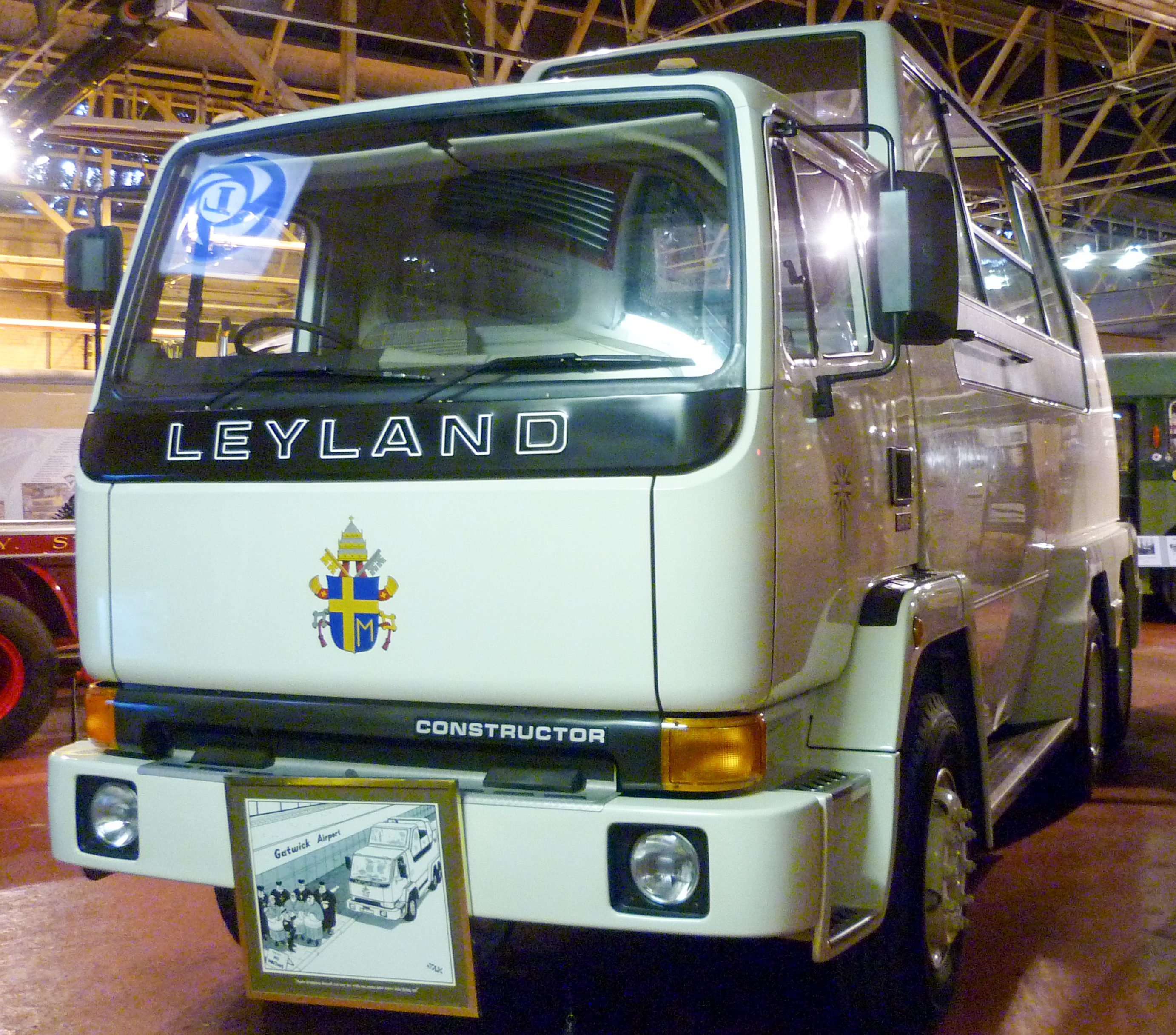 SCW 533X, one of the two Popemobiles coachbuilt on Leyland Constructor chassis for Pope John Paul II's visit to the UK in 1982. There were also two Land Rover based Popemobiles used for the visit. This vehicle was used for the Coventry visit on 30 May and the Cardiff visit on 2 June. This vehicle is owned and kept by the British Commercial Vehicle Museum in Leyland, Lancashire. SCW 532X, the other Leyland Constructor based Popemobile, was used for the London Wembley Stadium visit on 29 May, the Liverpool visit on 30 May, the York and Manchester visits on 31 May and the Glasgow visit on 1 June.